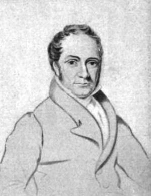 This is a picture of Samuel Brown, who invented the gas vacuum engine. The picture is from Cassier's Magazine.